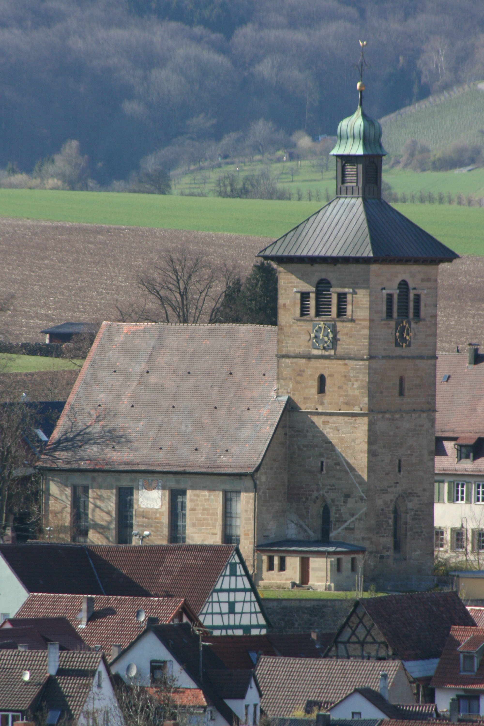 The protestant Ulrich church in Eberstadt from the East